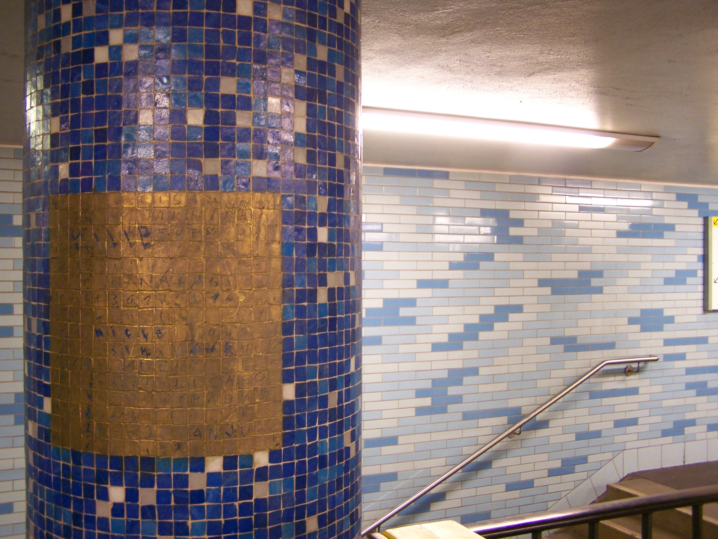 mosaics at the Berlin underground station Ernst-Reuter-Platz, line U2